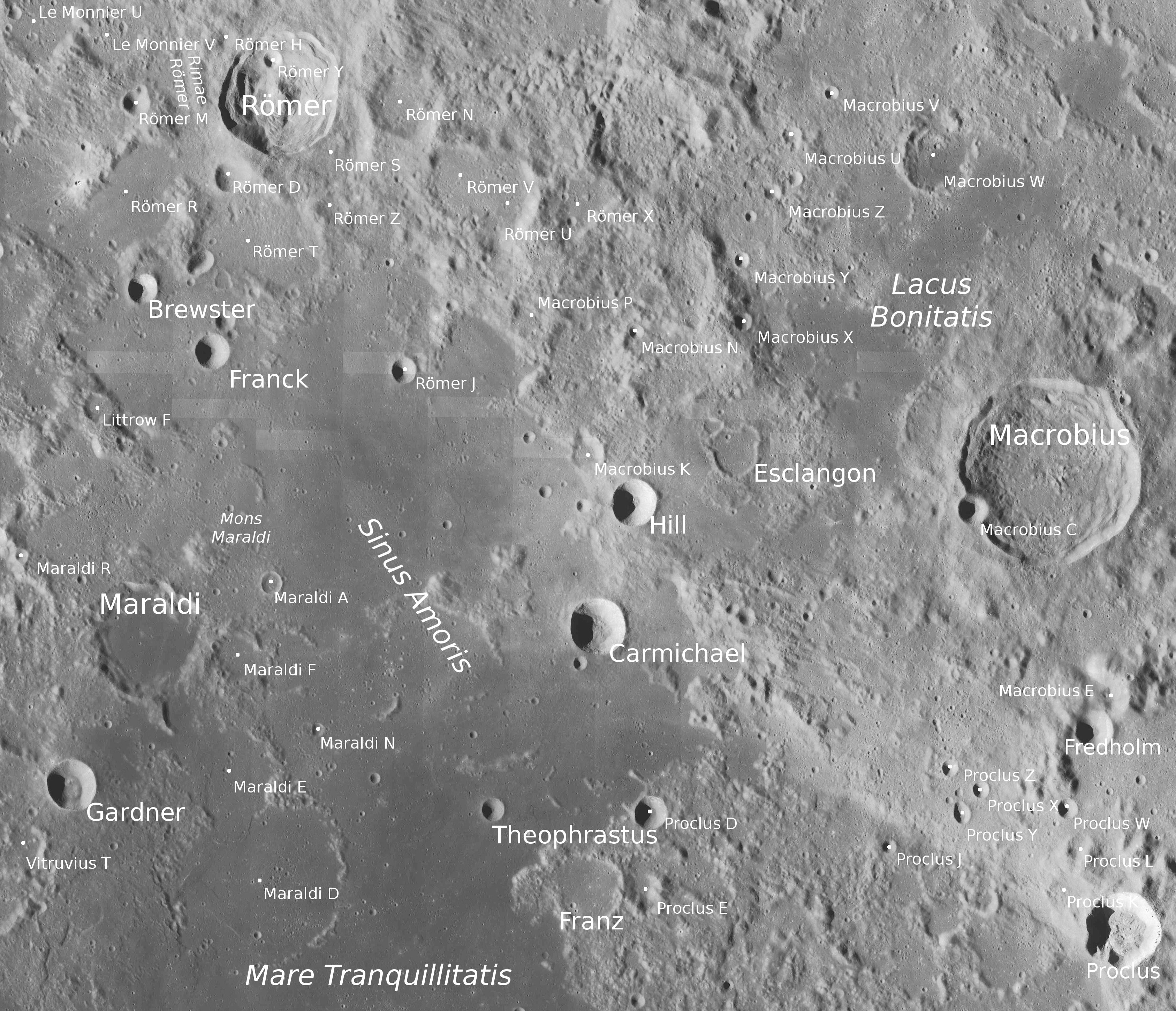 Sinus Amoris and Lacus Bonitatis with craters Roemer, Macrobius, Maraldi and others (detail of LROC - WAC global moon mosaic)